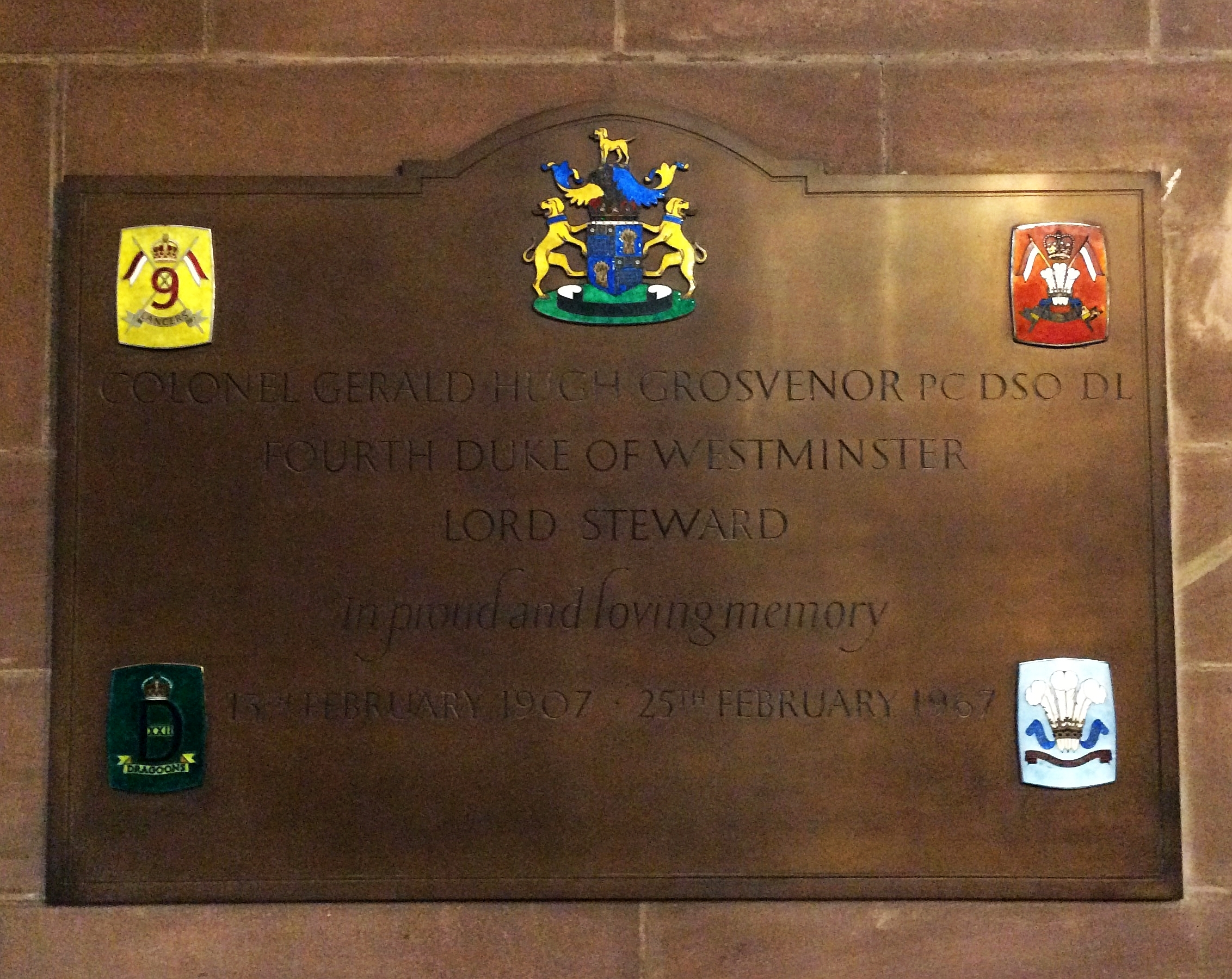 St Mary's Church Eccleston - Memorial tablet to the 4th Duke of Westminster in the Grosvenor Chapel